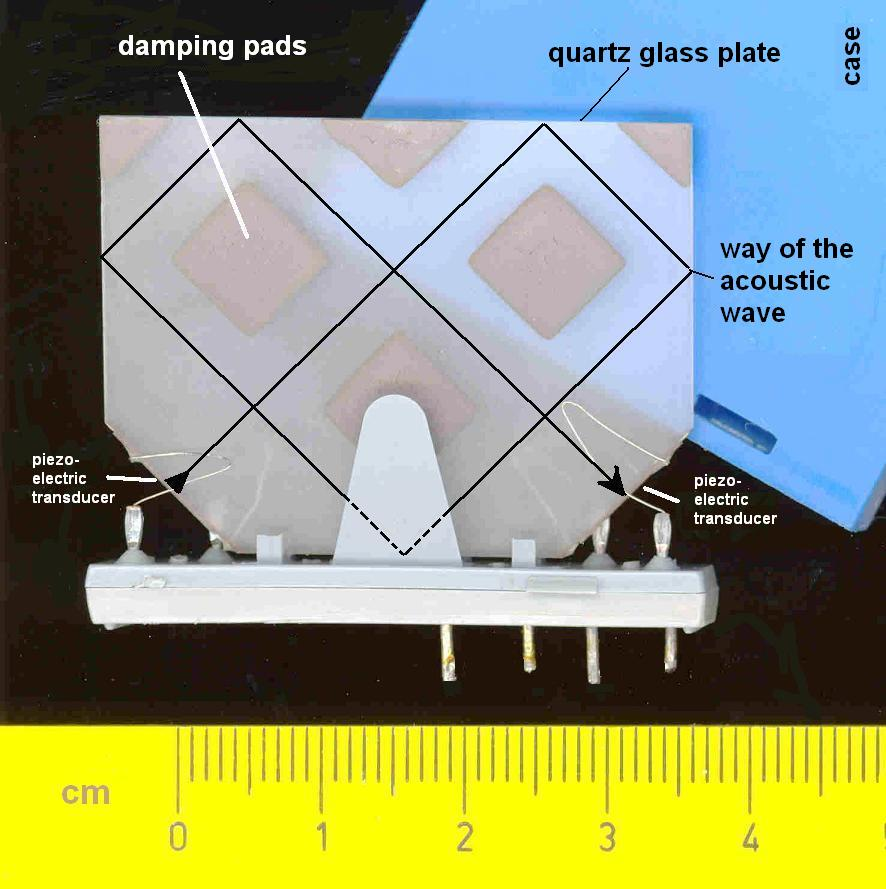 ultrasonic delay line from a color-TV-set (late 80s), delays the color signal for 64 microseconds